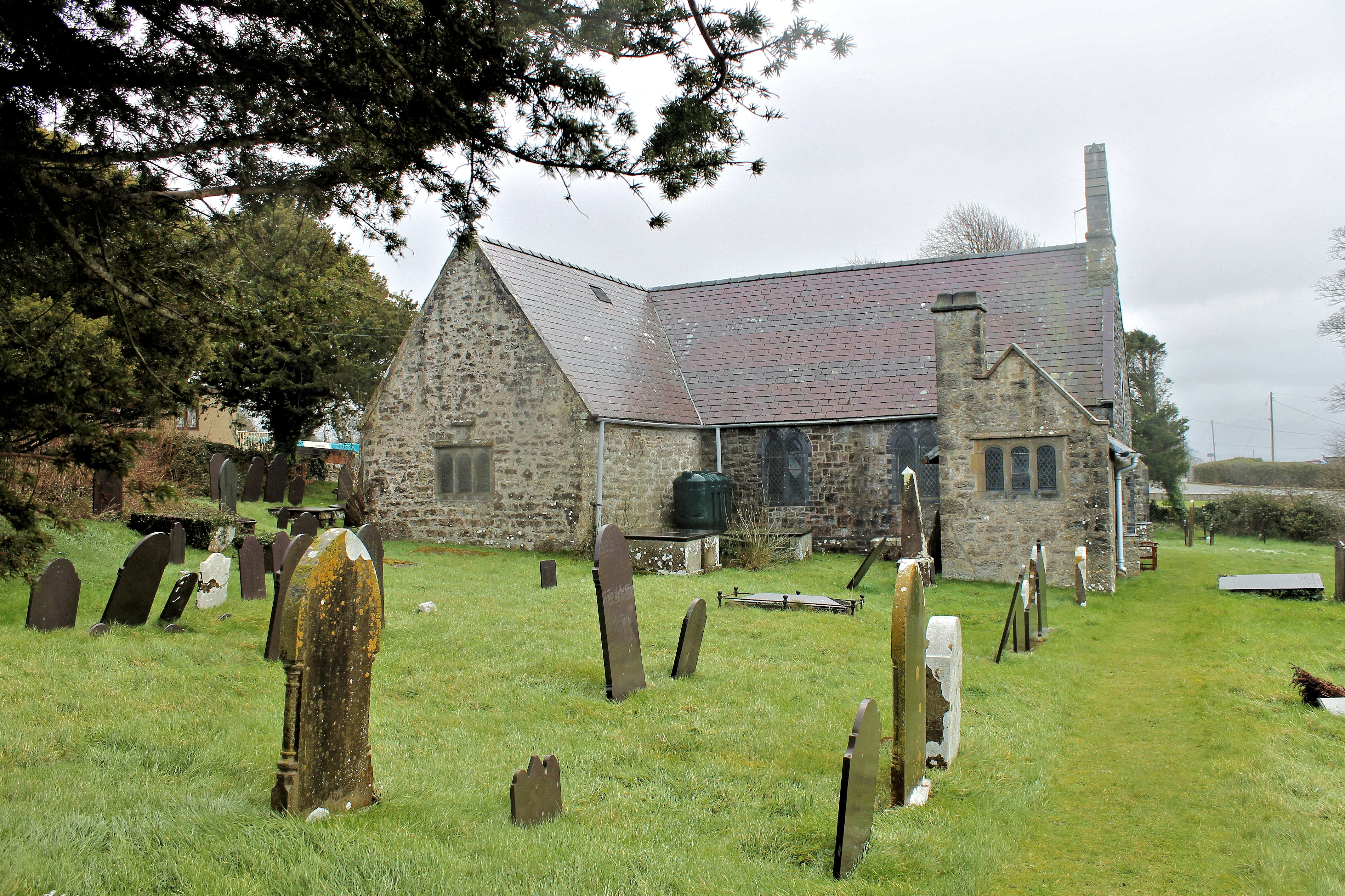 St Cawrdaf's Church, Llangoed, Ynys Môn (Anglesey), North Wales. Grade: II; Date Listed: 30 January 1968; Cadw Building ID: 5516.